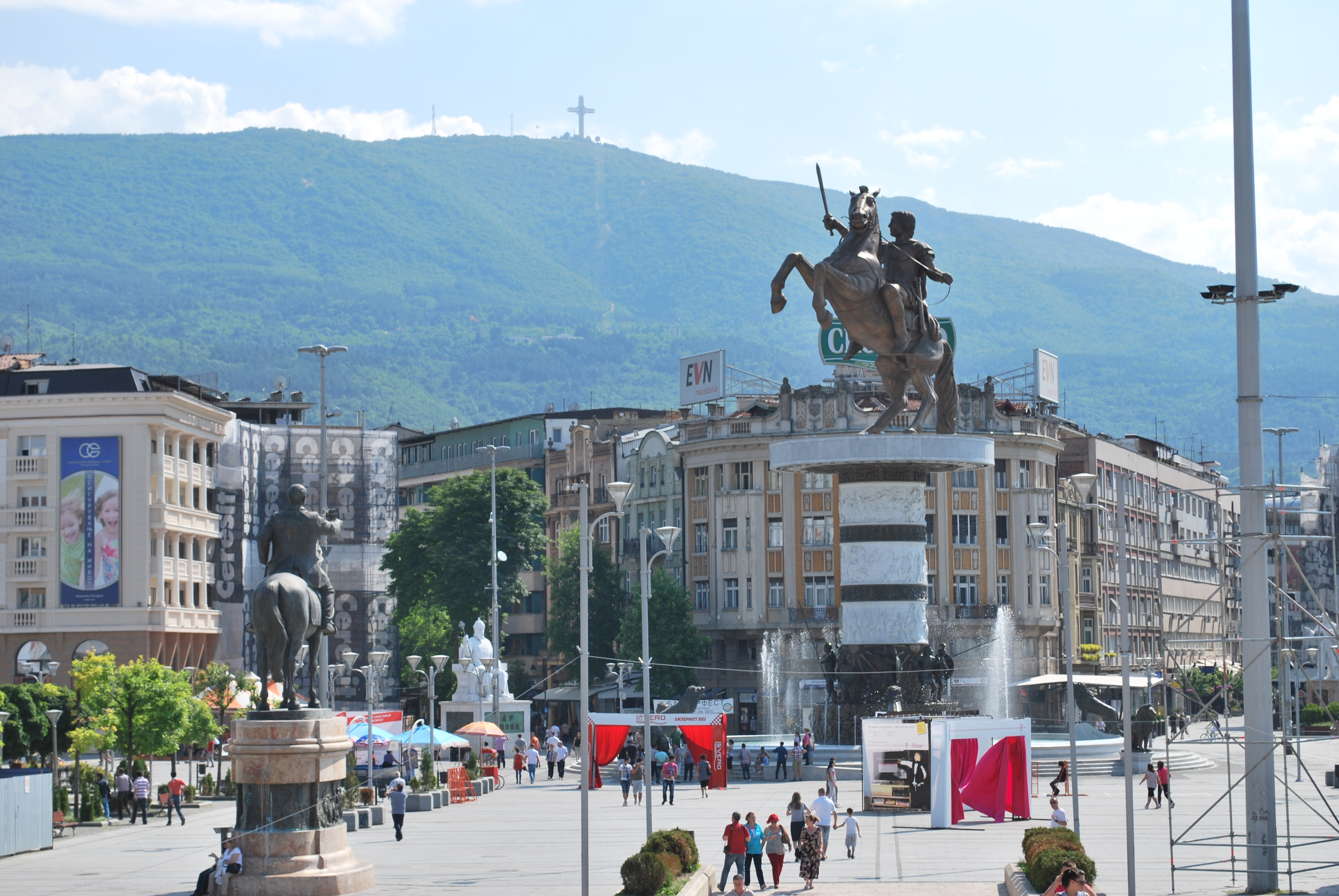 Skopje, Macedonia